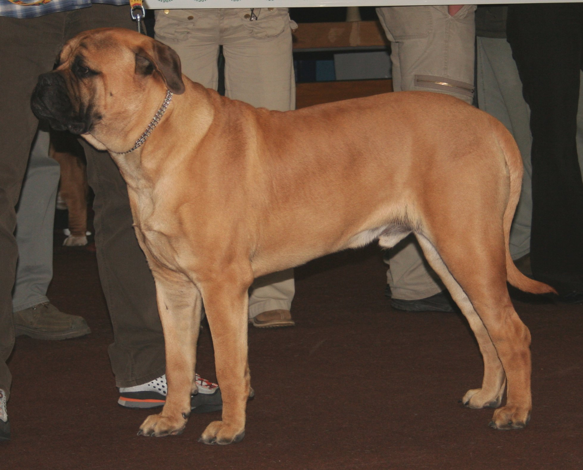 Bullmastiff during dogs show in Katowice, Poland